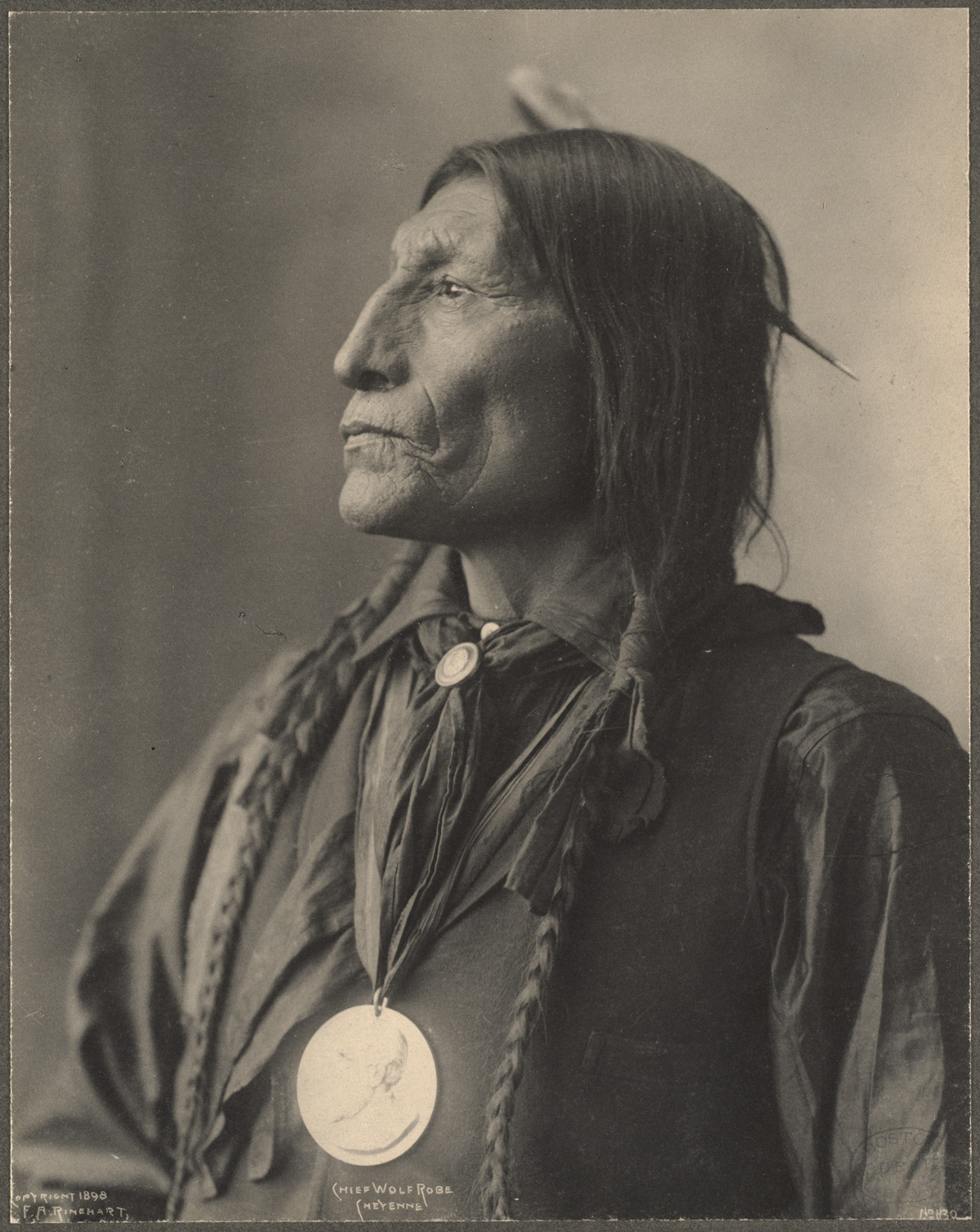 BPLDC no.: 09_06_000036 Rinehart no.: 1130 Title: Chief Wolf Robe, Cheyenne Photographer: Rinehart, F. A. (Frank A.) Copyright date: 1898 Extent: 1 photographic print : platinum Genre: Platinum prints; Portrait photographs Subject: Indians of North America; Cheyenne Indians; Trans-Mississippi and International Exposition (1898 : Omaha, Neb.) BPL Department: Print Department